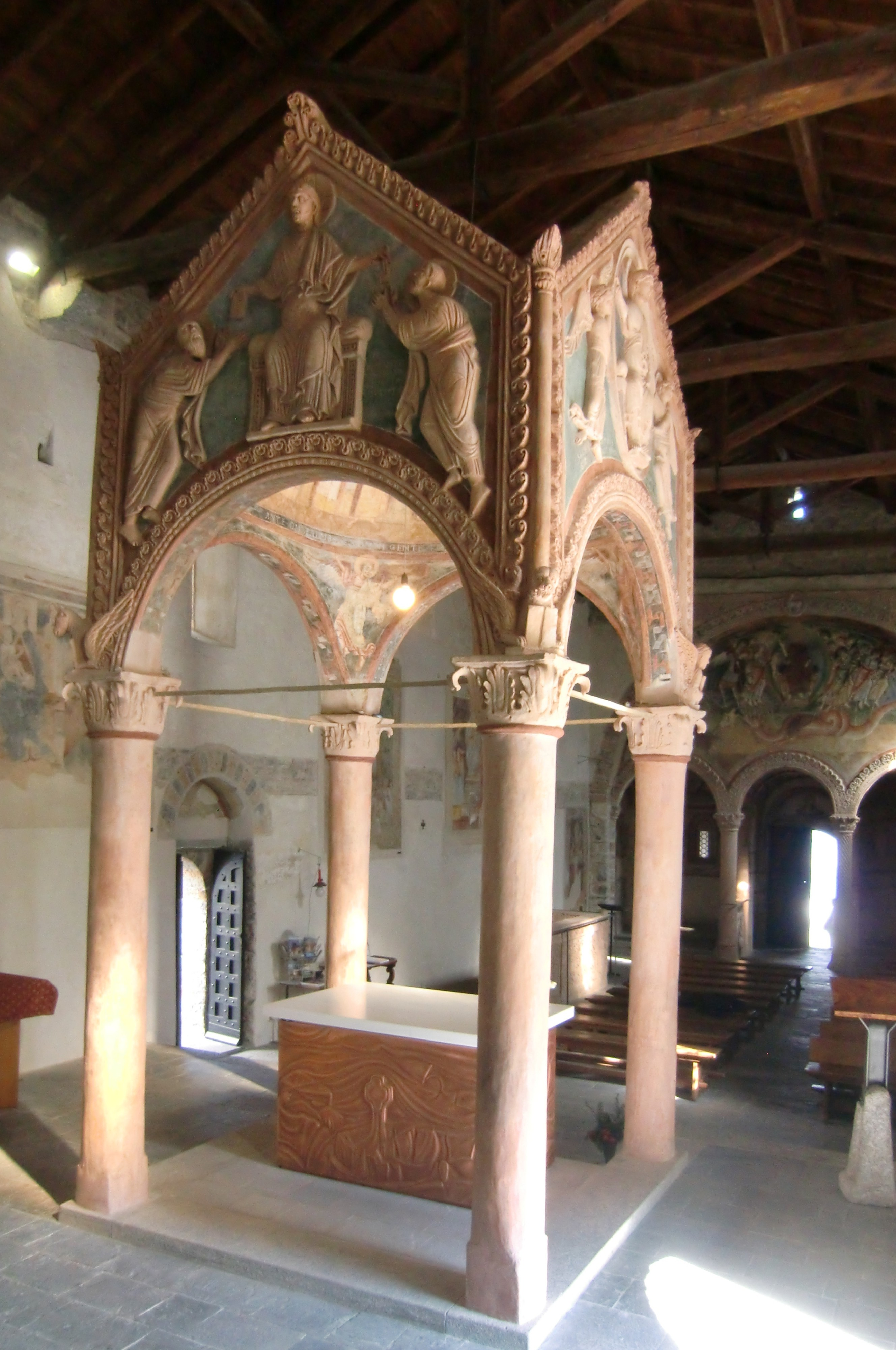 Ciborium, end of the XI century, San Pietro al Monte church, Civate (Italy)